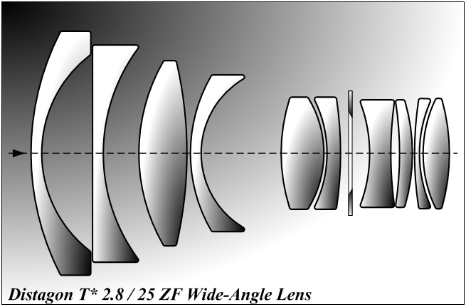 Distagon lens.